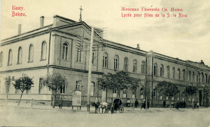 St. Nina's Russian School for Girls in Baku